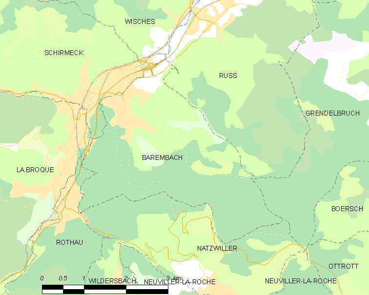 Map of French municipality